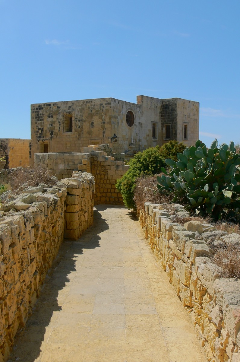 St. Joseph's Chapel in the Gozo Citadel